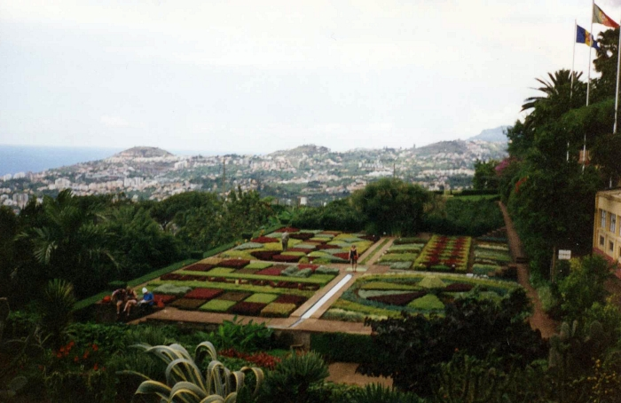 A work release by Francisco Javier Martin Lopez in Botanical Garden of Funchal Madeira, 12 July 1998, donated to Wikipedia